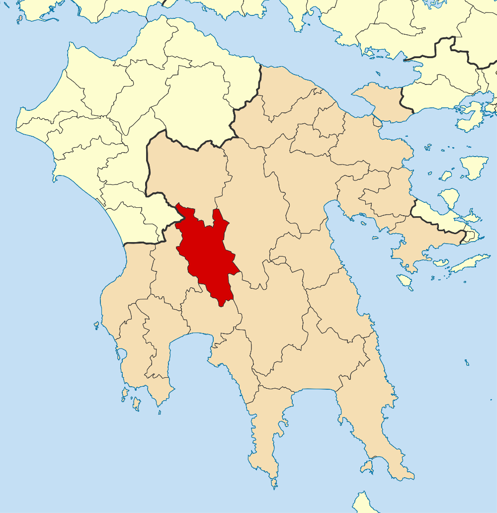 Locator map for Megalopoli municipality in Greek region Peloponnese (2011)